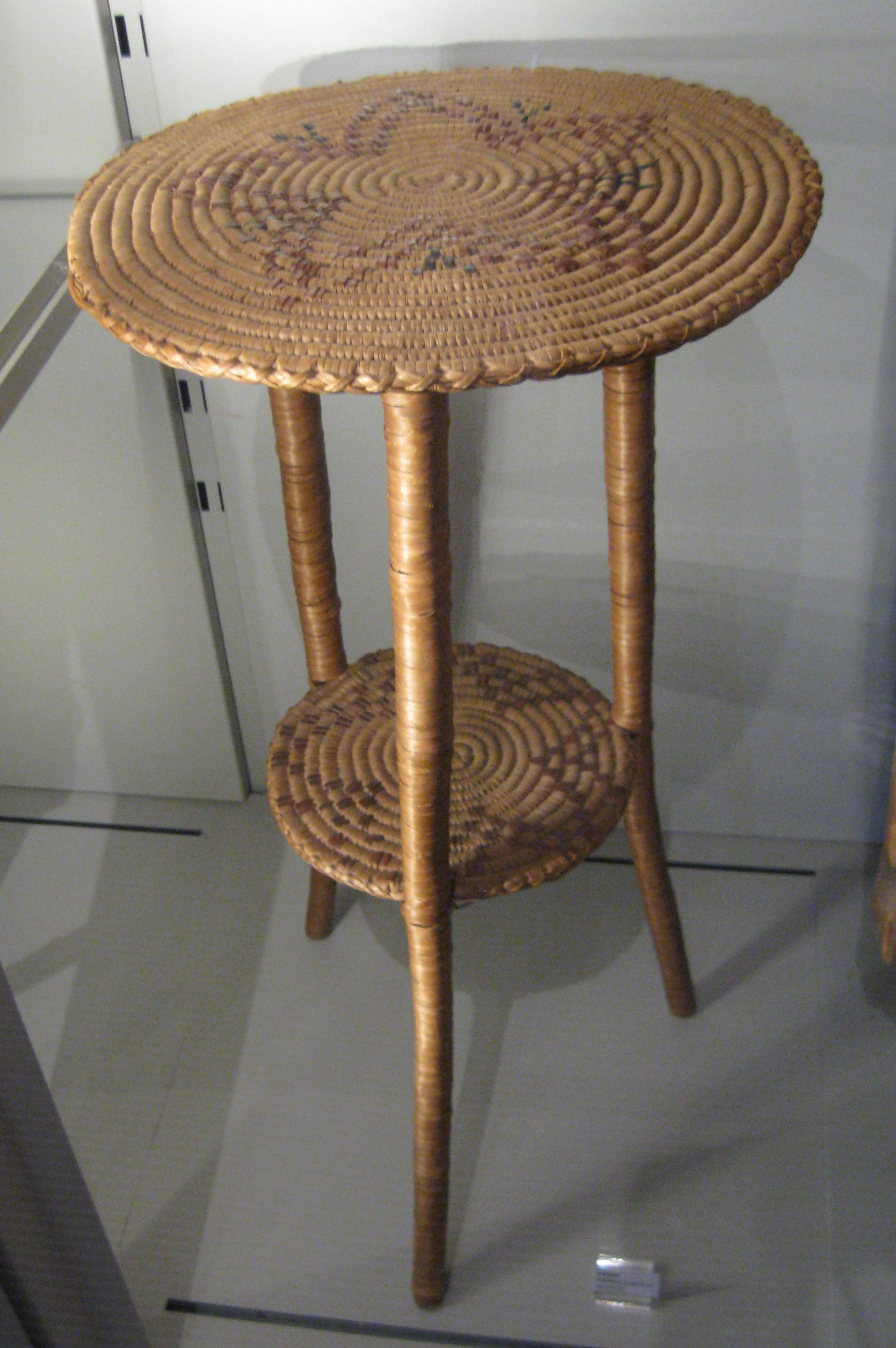 A hand woven native Indian Nlaka'pamux peoples' table. This well preserved object is today part of the collection of the UBC Museum of Anthropology in Vancouver, Canada. Its catalogue number is A7252.